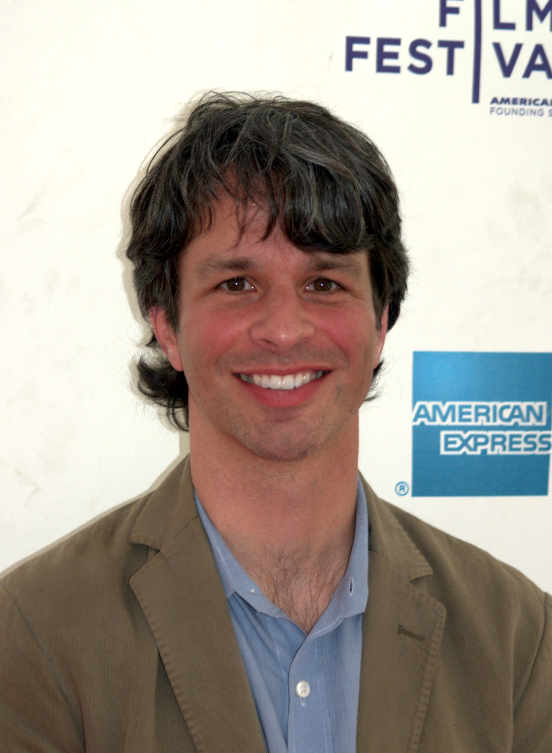 Marshall Curry at the 2009 Tribeca Film Festival.